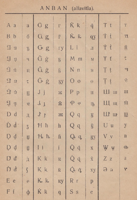 Abkhaz Analytic Alphabet, 1927